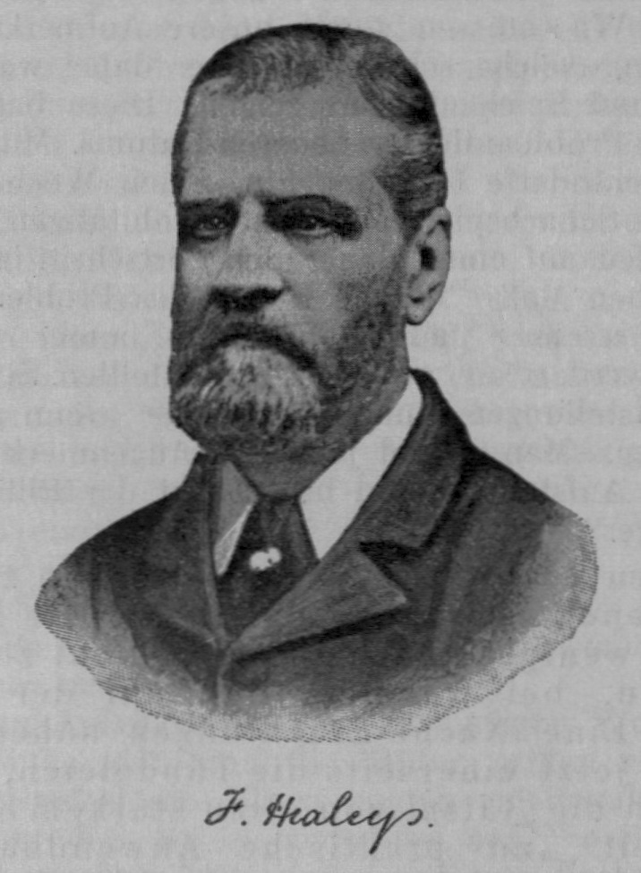 Frank Healey (1828–1906), English chess player and chess composer.